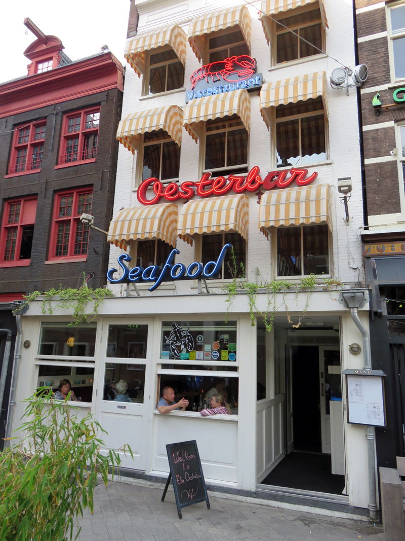 Fish restaurant "Oesterbar" at Leidseplein 10 in Amsterdam, established in 1938.